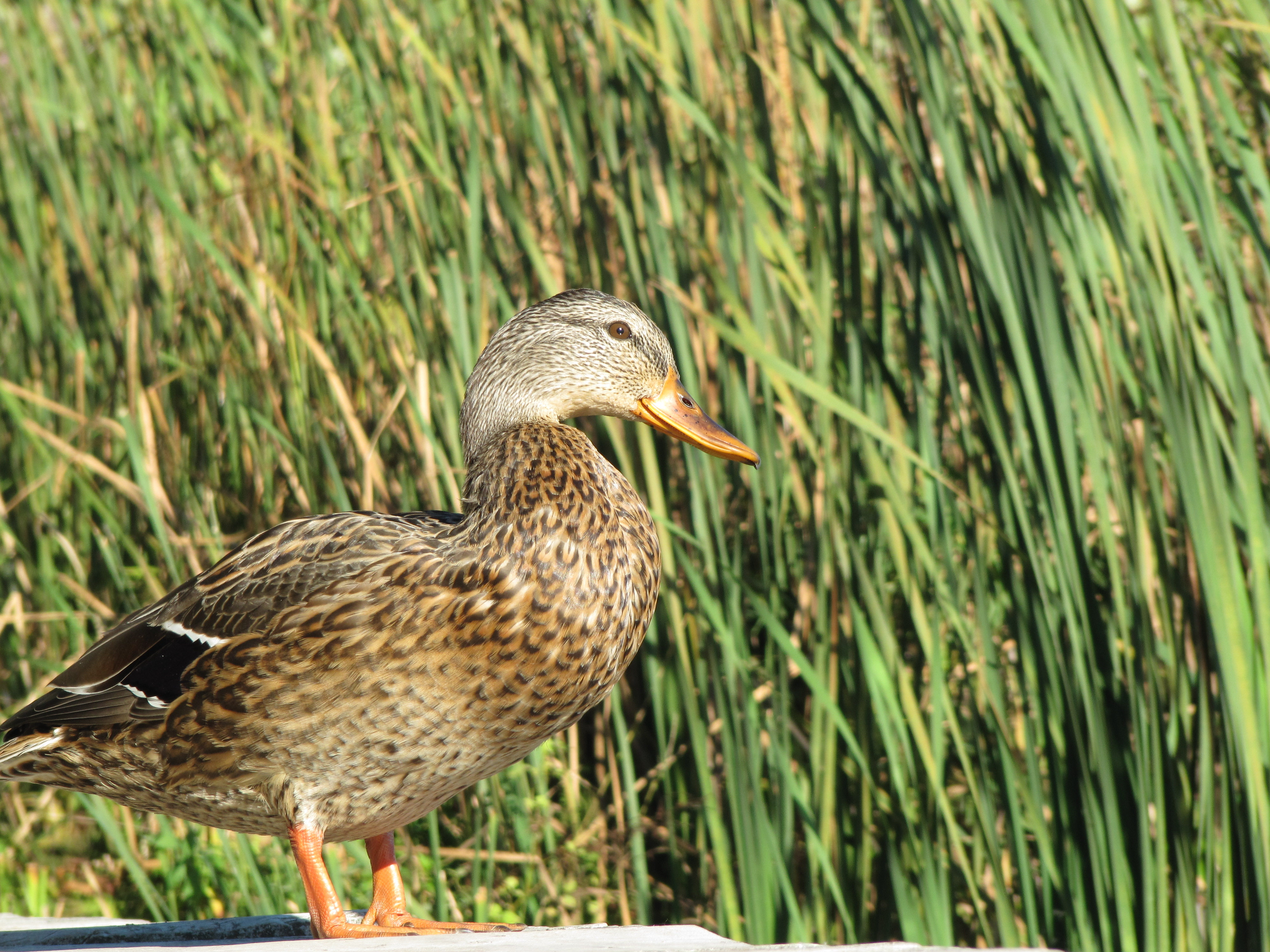 Picture taken at the Centre d'interprétation de la nature du lac Boivin in Granby, Quebec. Duck on a footbridge.